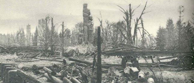 1918 Finnish Civil War: Kavantsaari railway station destroyed after the Battle of Antrea.